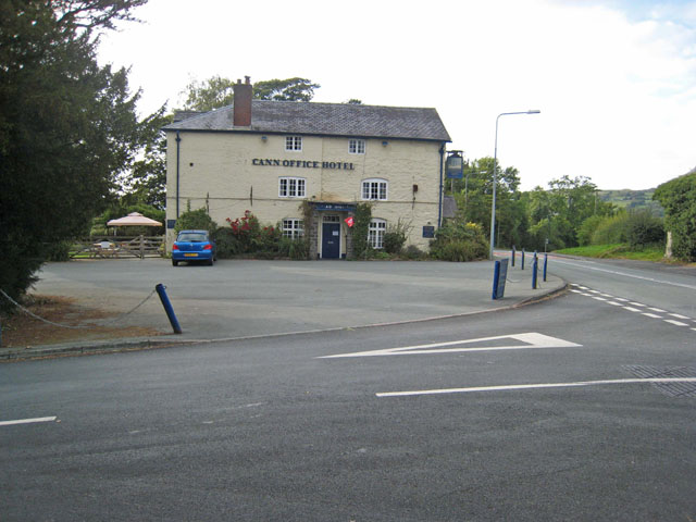 Cann Office Hotel, Llangadfan No, not a business centre. The name is actually derived from 'Cae'n y ffos', meaning fortified or ditched enclosure , and an old earthwork belonging to a twelfth century motte and bailey is in the inn's back-garden.